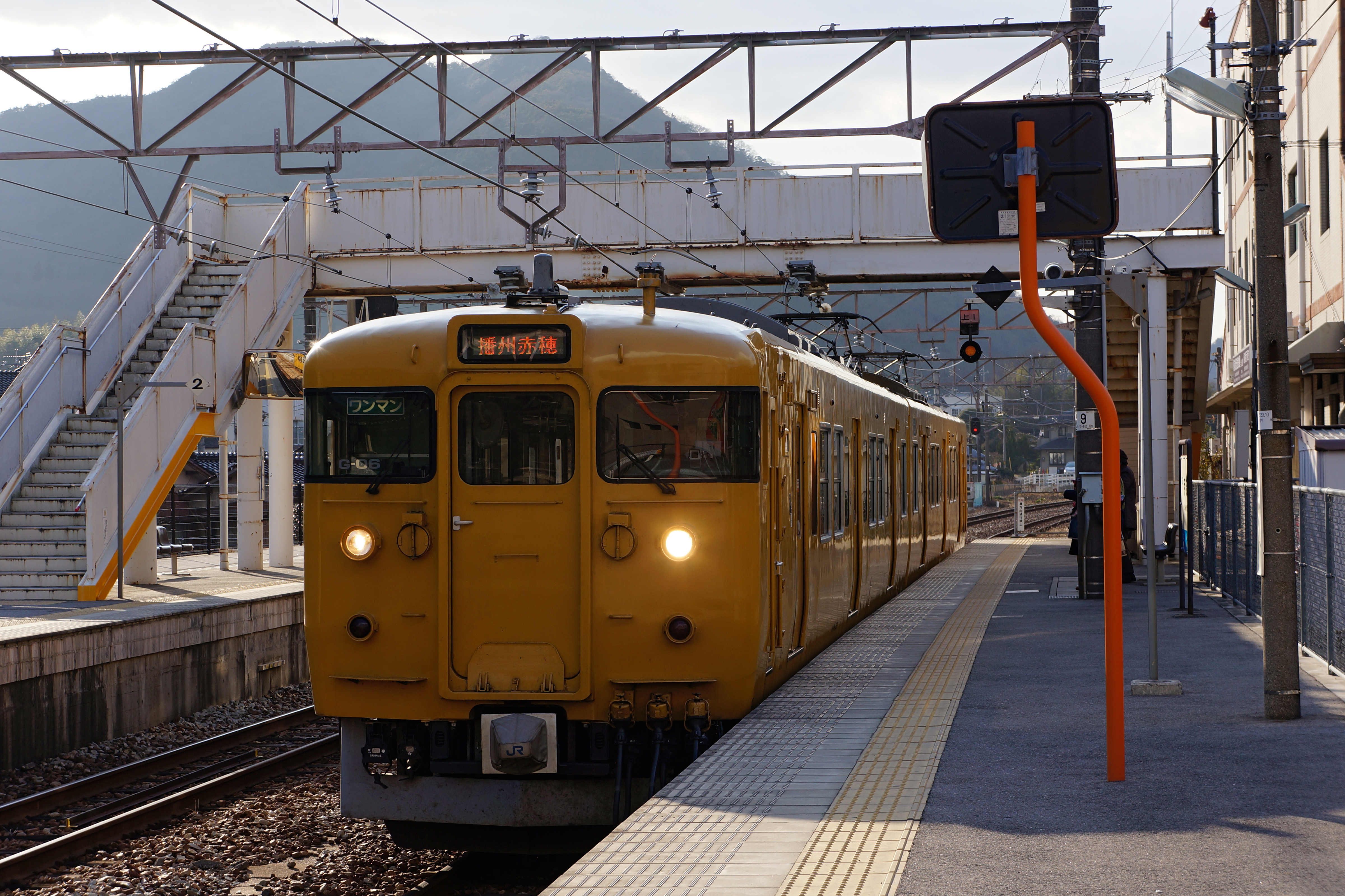 Imbe Station in Imbe, Bizen, Okayama prefecture, Japan